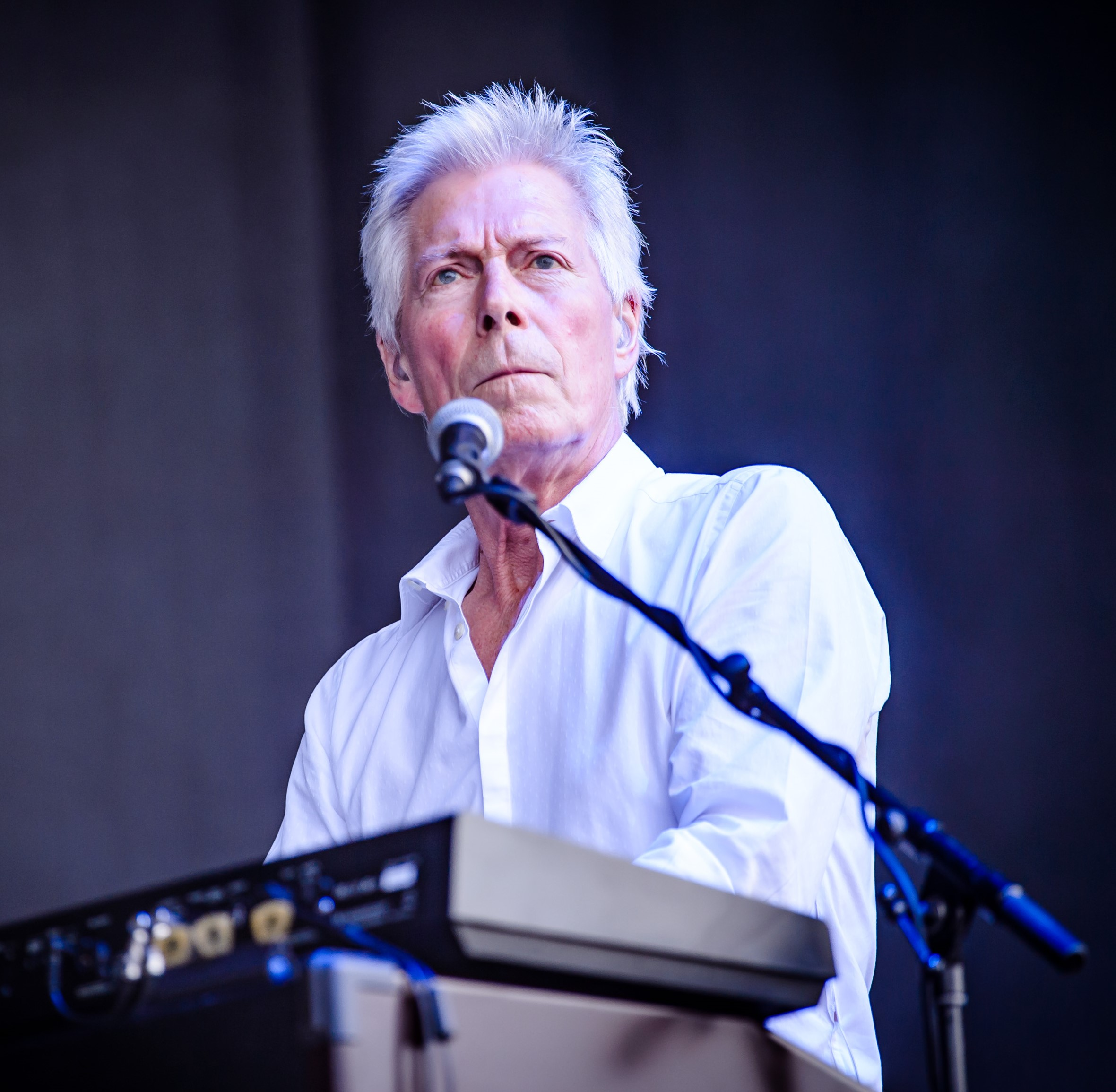 Andy Bown performing with Status Quo (band) at Wacken Open Air, 2017